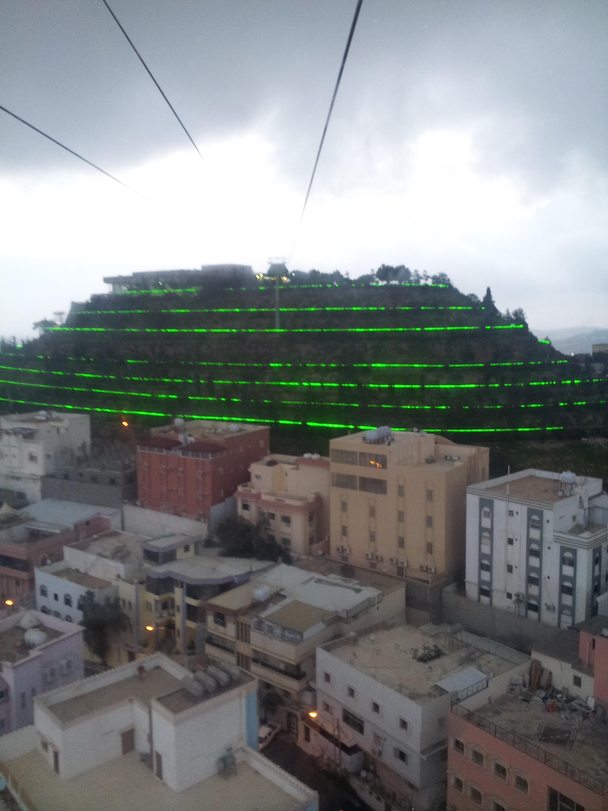 Abha city